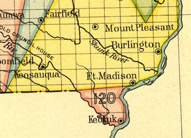 Map of the Half-Breed Tract in Iowa, a reservation designated for individuals of mixed American Indian and European descent. This reservation was designated in an 1824 treaty between the Sac and the Fox Indian tribes and the United States government.